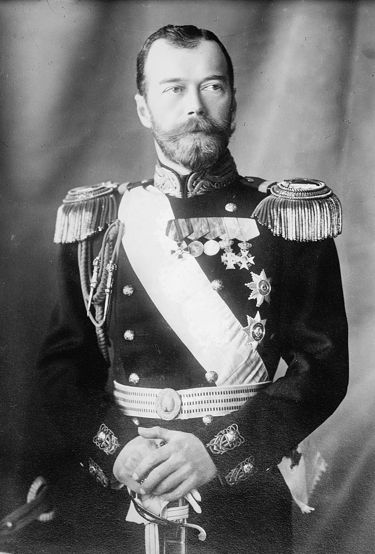 Photo of Nicholas II of Russia